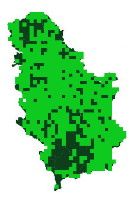 Pieris rapae - distribution map in Serbia